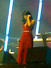 Kelly Rowland